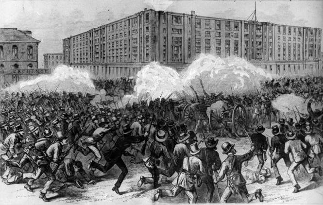 New Orleans 1874, during post-Civil War Reconstruction period. Clash between the (racially integrated) Police & their allies v/s the (segregationist) White League & allies on Canal Street